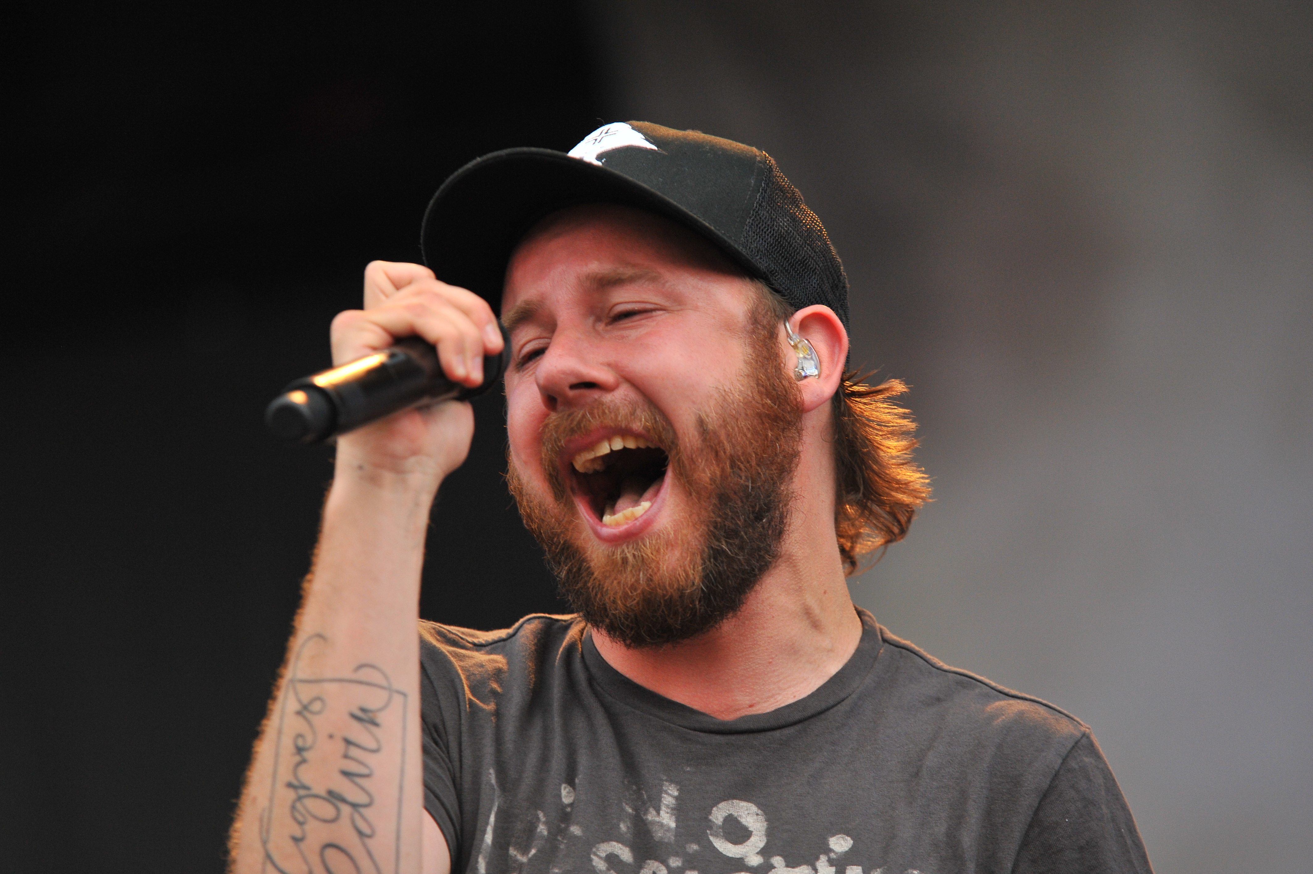 Anders Fridén, singer of the band "In Flames" while their show at "Rock am Ring" 2011, Nuerburgring, Germany. Took with a accreditation for photographers by leave of management and promoter.